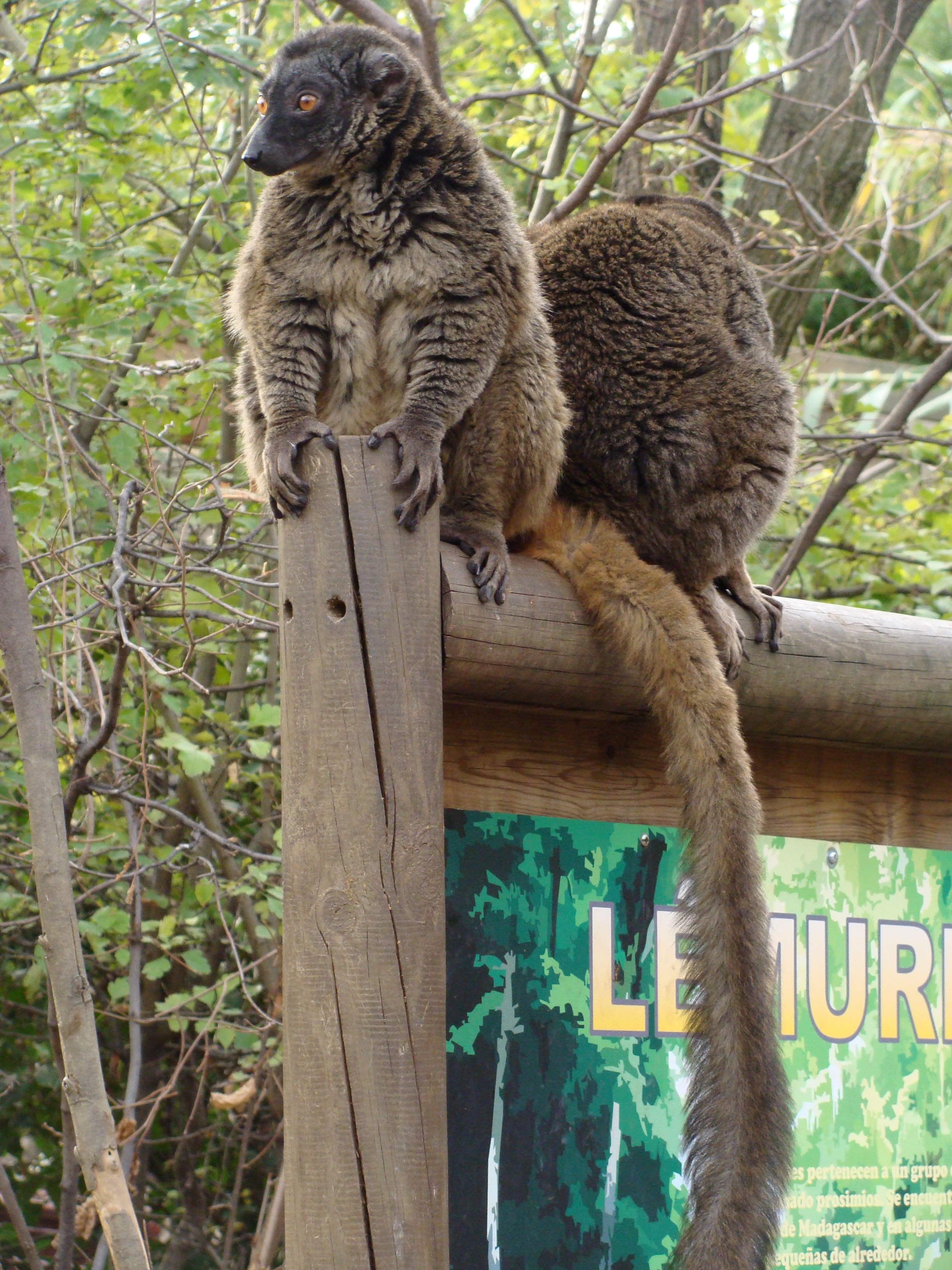 Eulemur albifrons (White-headed Lemur) in the Park of Faunia, Madrid, Spain.